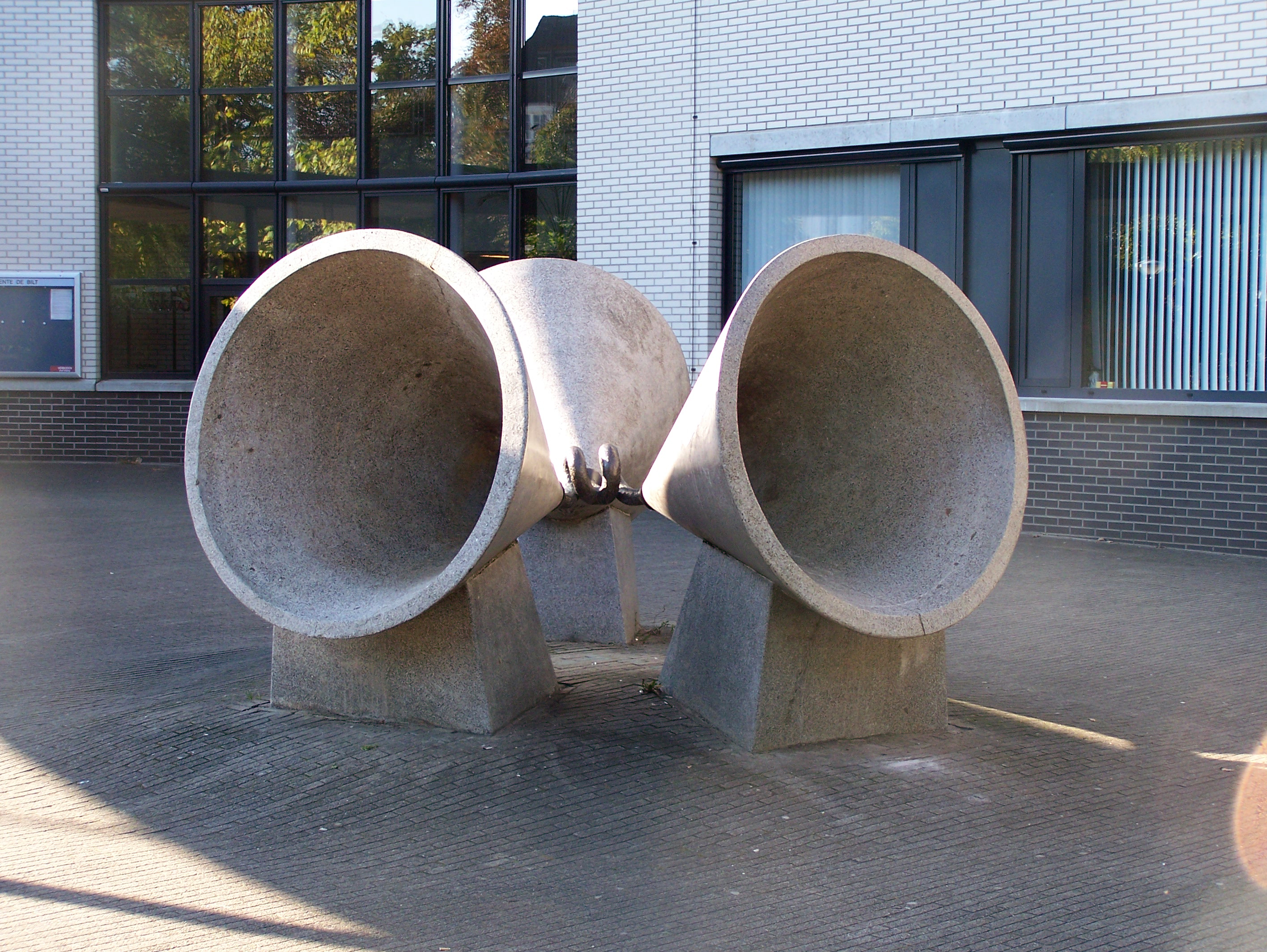 Sculpture "Granito Kegels" by Carel Lanters in 1996. Placed at the Soestdijkseweg in Bilthoven at the townhall.